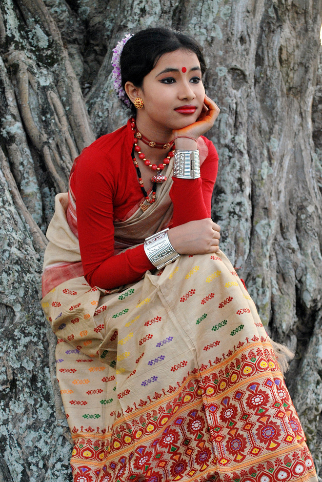 An Assamese Girl in Traditional Muga Bihu Dress.